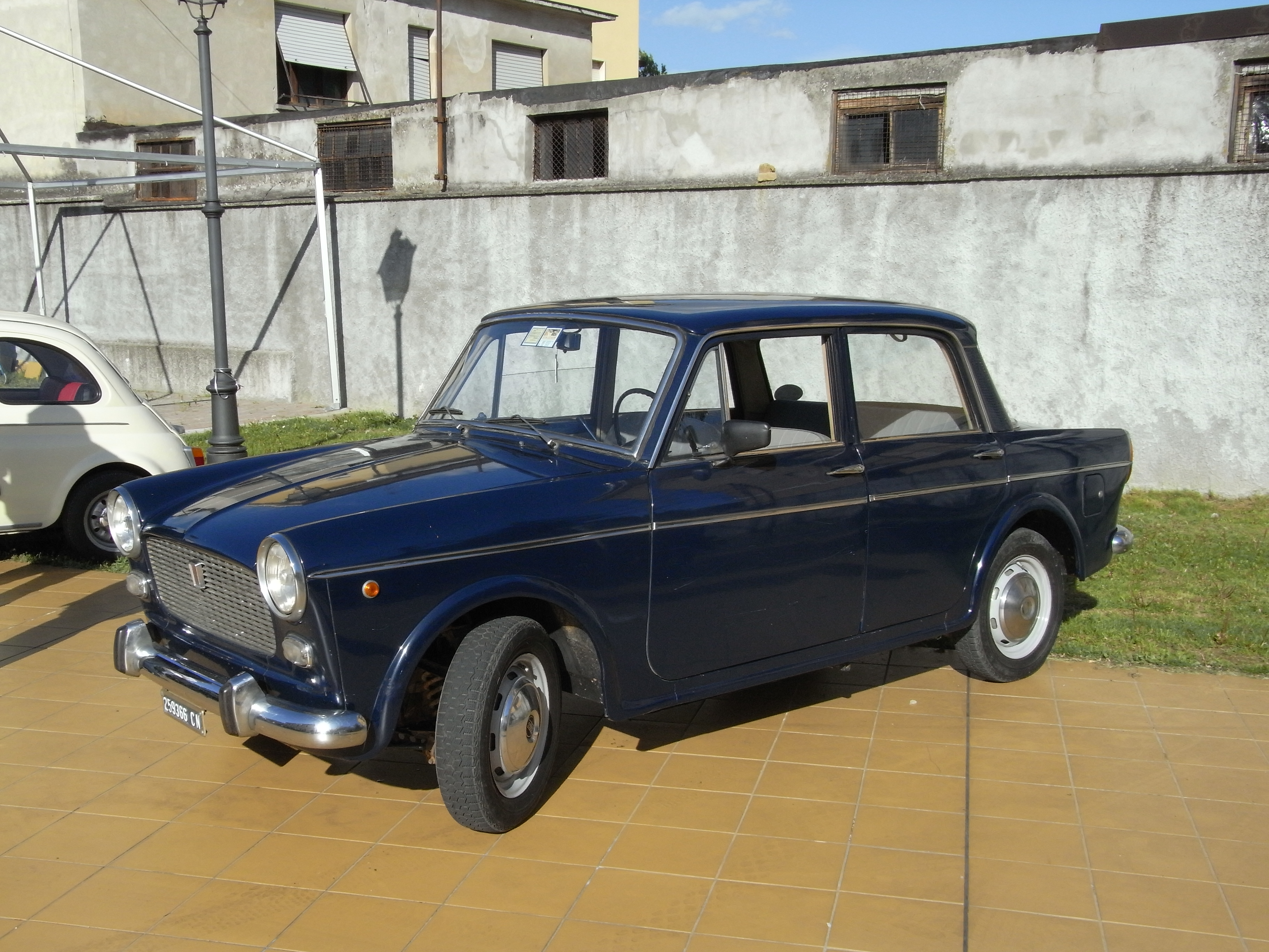 The Fiat 1100 D was a typical Italian midsize sedan of the 60s, here at a classic car meeting in Bistagno. 22.4.2012. Ricoh R10